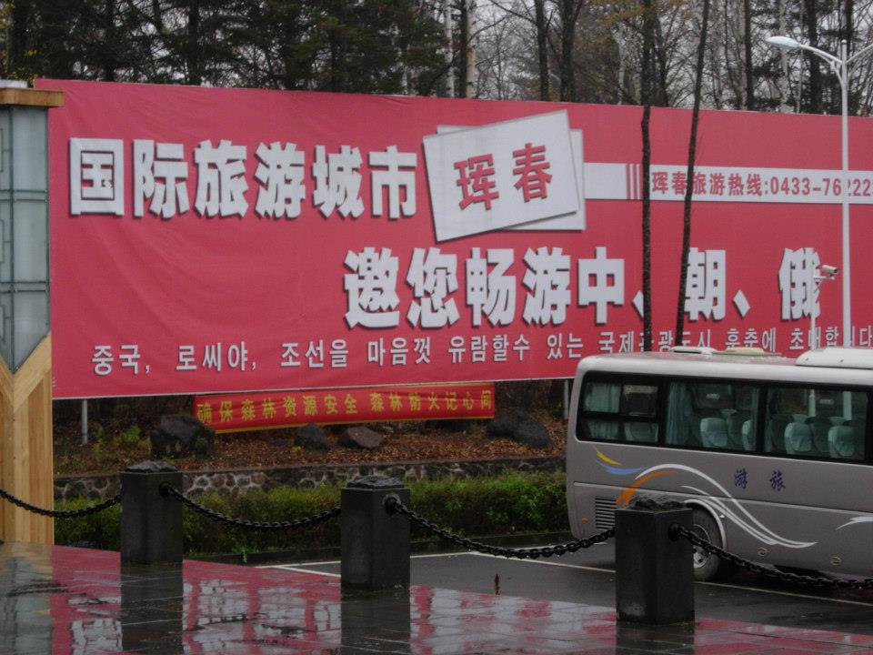 Sign near Mount Paektu. It suggests that Hunchun is near Russia and North Korea by its explanation "(We) Invite (you) to Hunchun, the international tourist city where you can go sight-seeing in China, Russia, and North Korea." written in Korean and Chinese language.